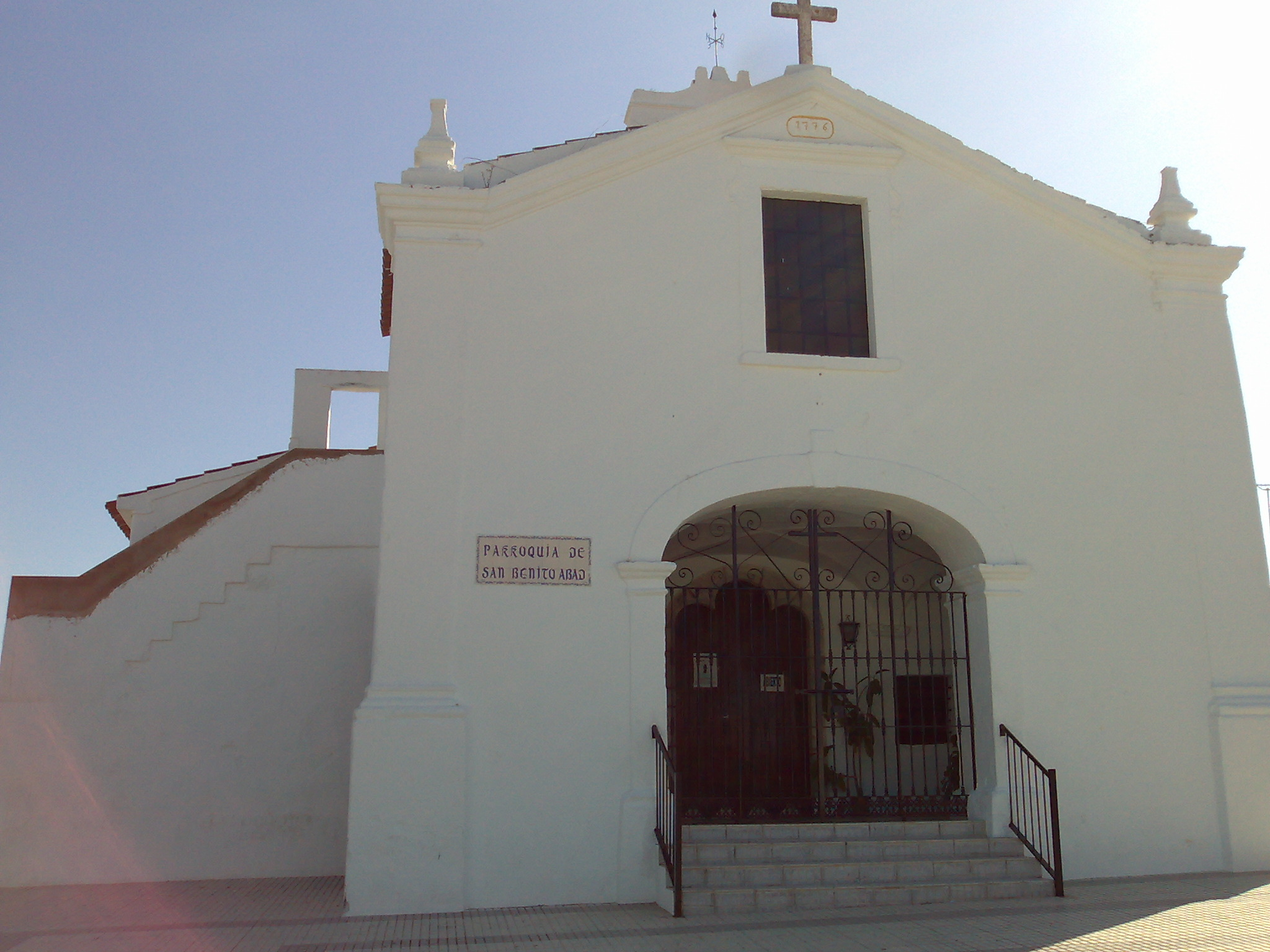 São Bento da Contenda - Church